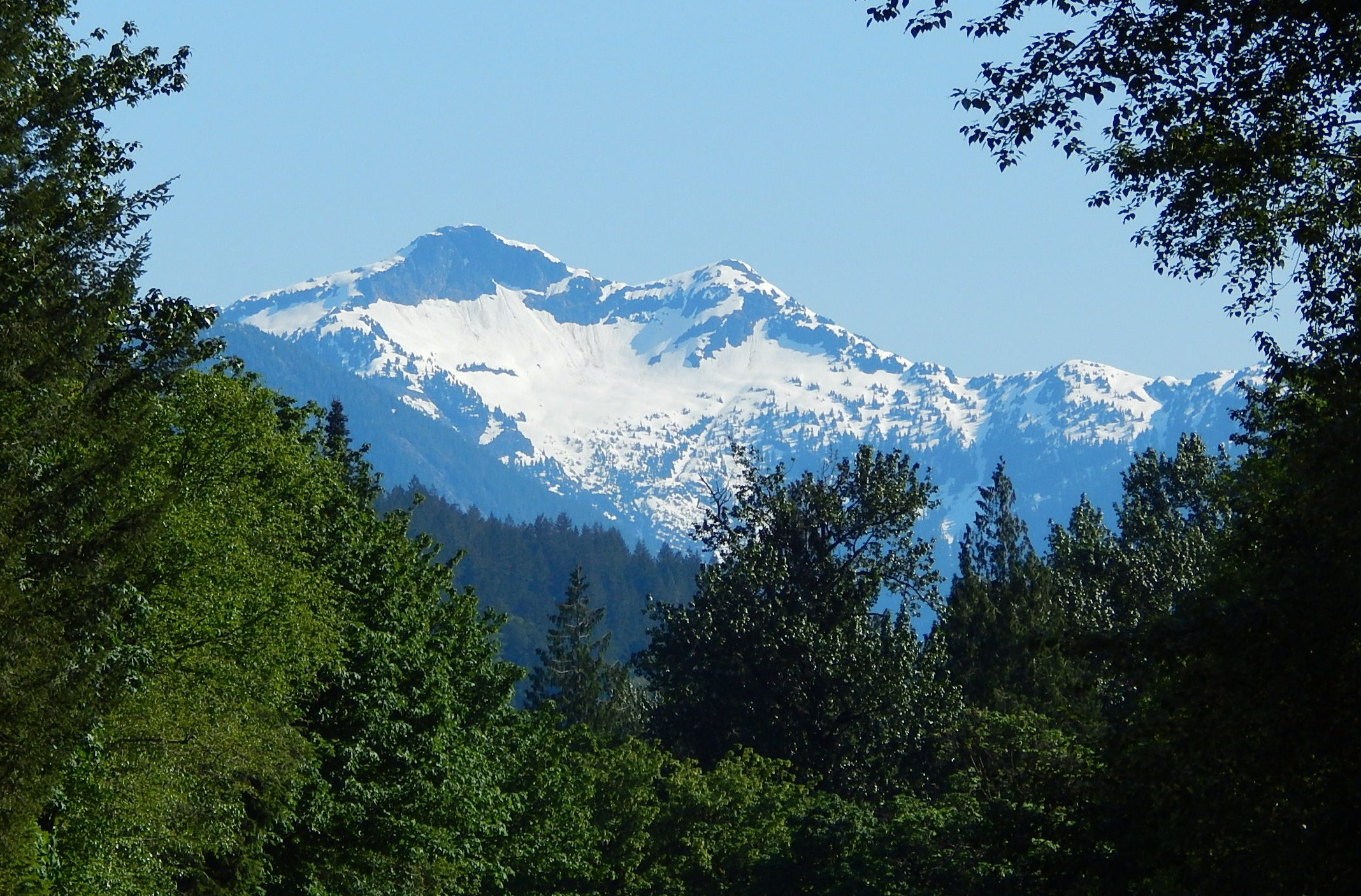 The Roost 6705' in the North Cascades mountain range seen from Highway 20